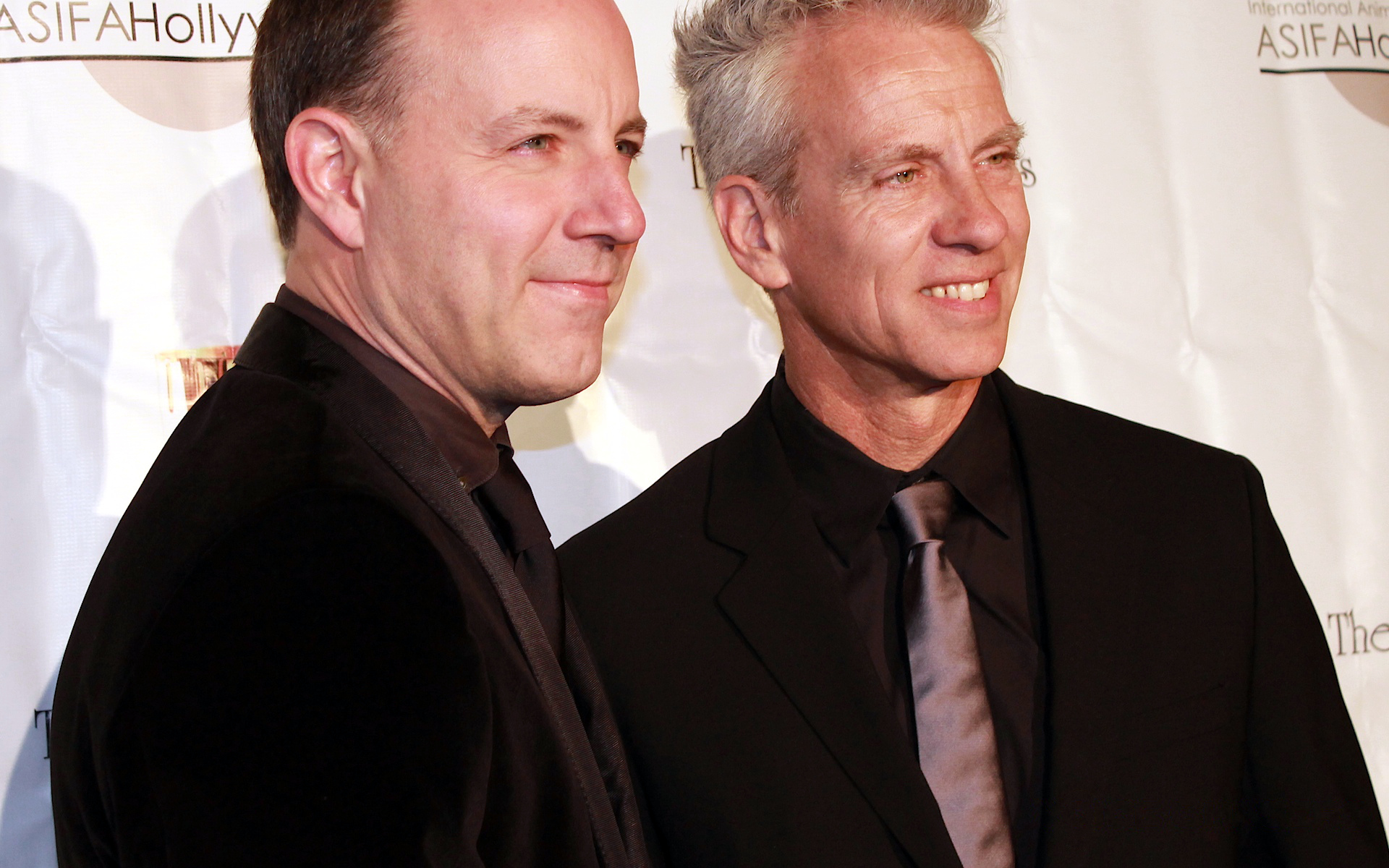 "The Croods" co-directors and co-writers Kirk DeMicco and Chris Sanders at the 41st Annual Annie Awards.